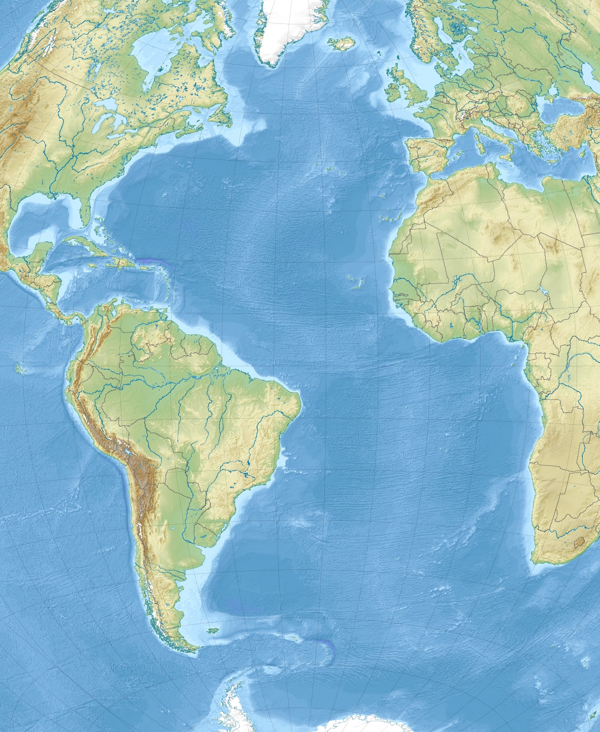 Relief location map of Atlantic_Ocean. Projection: Lambert azimuthal equal-area projection. Area of interest: N: 70.0° N S: -70.0° N W: -95.0° E E: 25.0° E Projection center: NS: 0.0° N WE: -35.0° E GMT projection: -JA-35.0/0.0/180/19.998266666666666c GMT region: -R-147.58842045747764/-48.58942183011819/77.58842045747762/48.589421830118205r GMT region for grdcut: -R-148.0/-76.0/78.0/76.0r Relief: SRTM30plus. Made with Natural Earth. Free vector and raster map data @ .